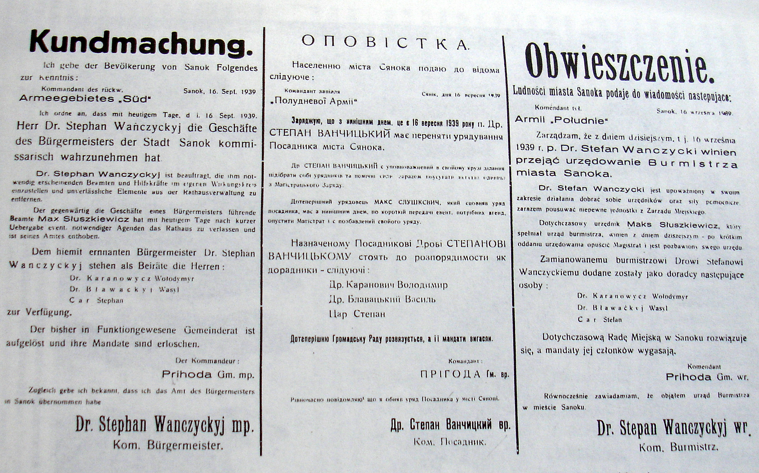 Kundmachung Obwieszczenie Opovistka 16.09.1939. Gen. Prihoda